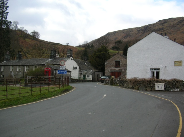 Seatoller With the reputation for the wettest place in England. Honister pass starts from here.